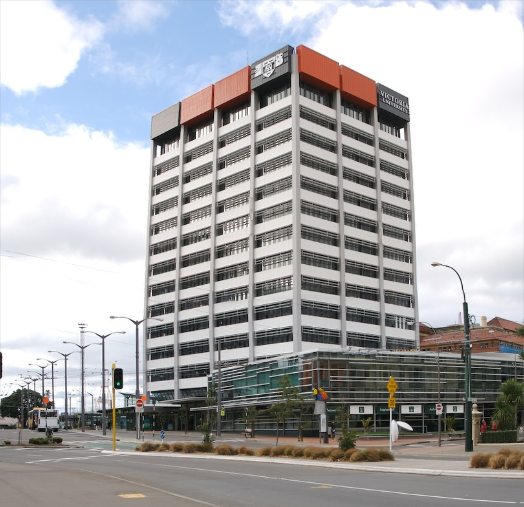 Rutherford House, Wellington, New Zealand.